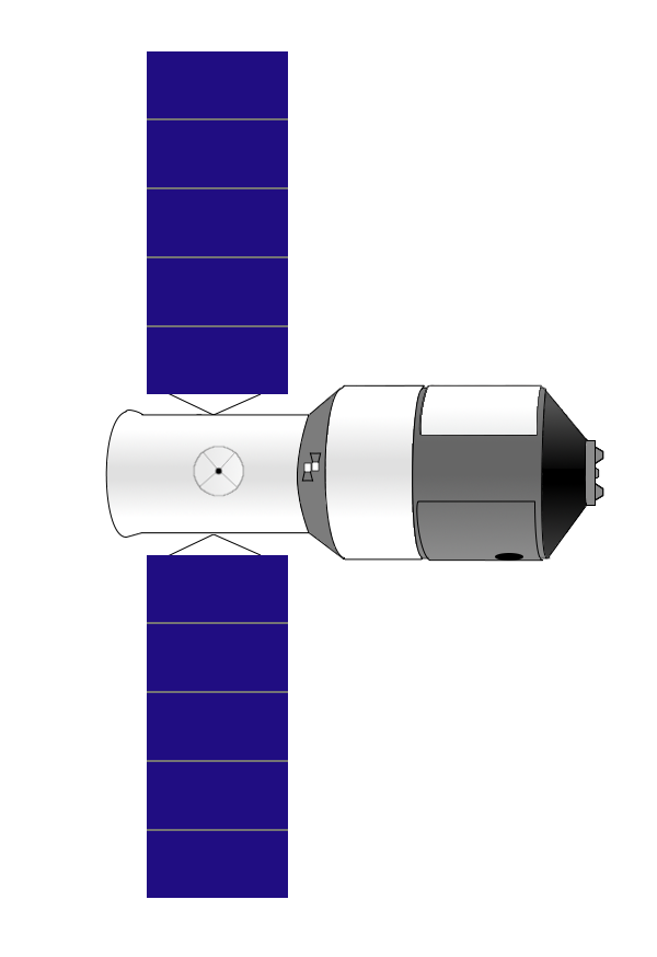 Drawing of the Tiangong-1.